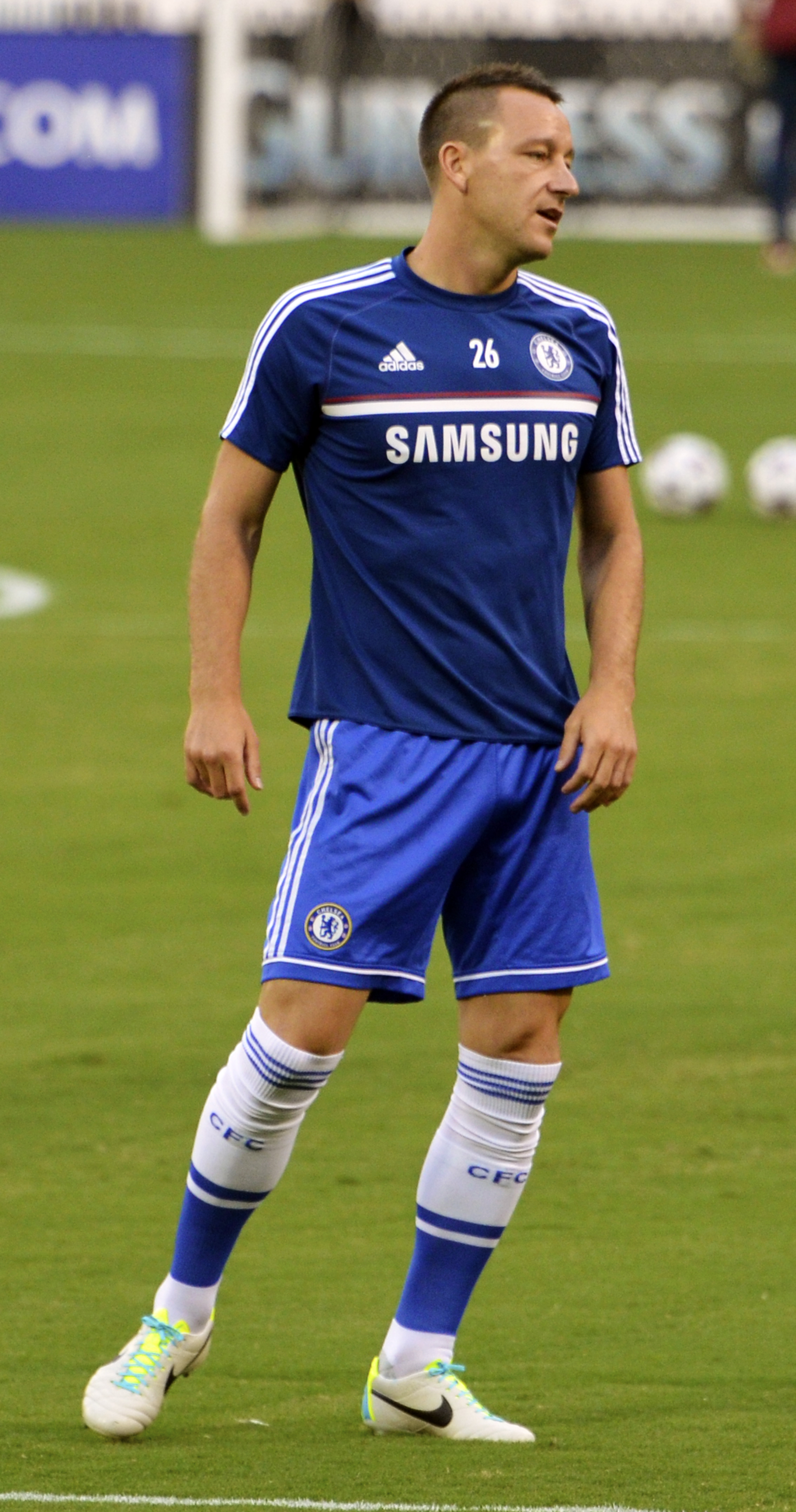 John Terry of Chelsea FC warming up in a game against A.S. Roma. The game was played at Robert F. Kennedy Stadium in Washington D.C. on 10AUG2013.